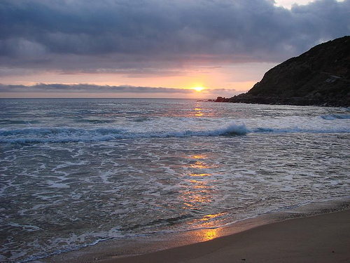 lighthouse